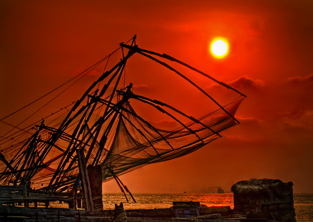 Chinese Fishing Nets, Cochin, India